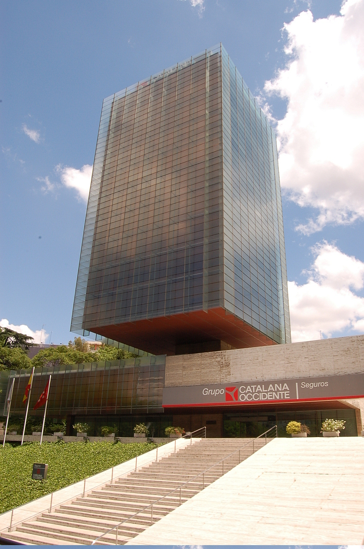 Edificio Castelar. Building at 50 Paseo de la Castellana (avenue) in Madrid (Spain). Projected in 1975 by architect Rafael de La-Hoz Arderius and inaugurated in 1983. At the present time it's a Catalana Occidente's (insurance company) office building.